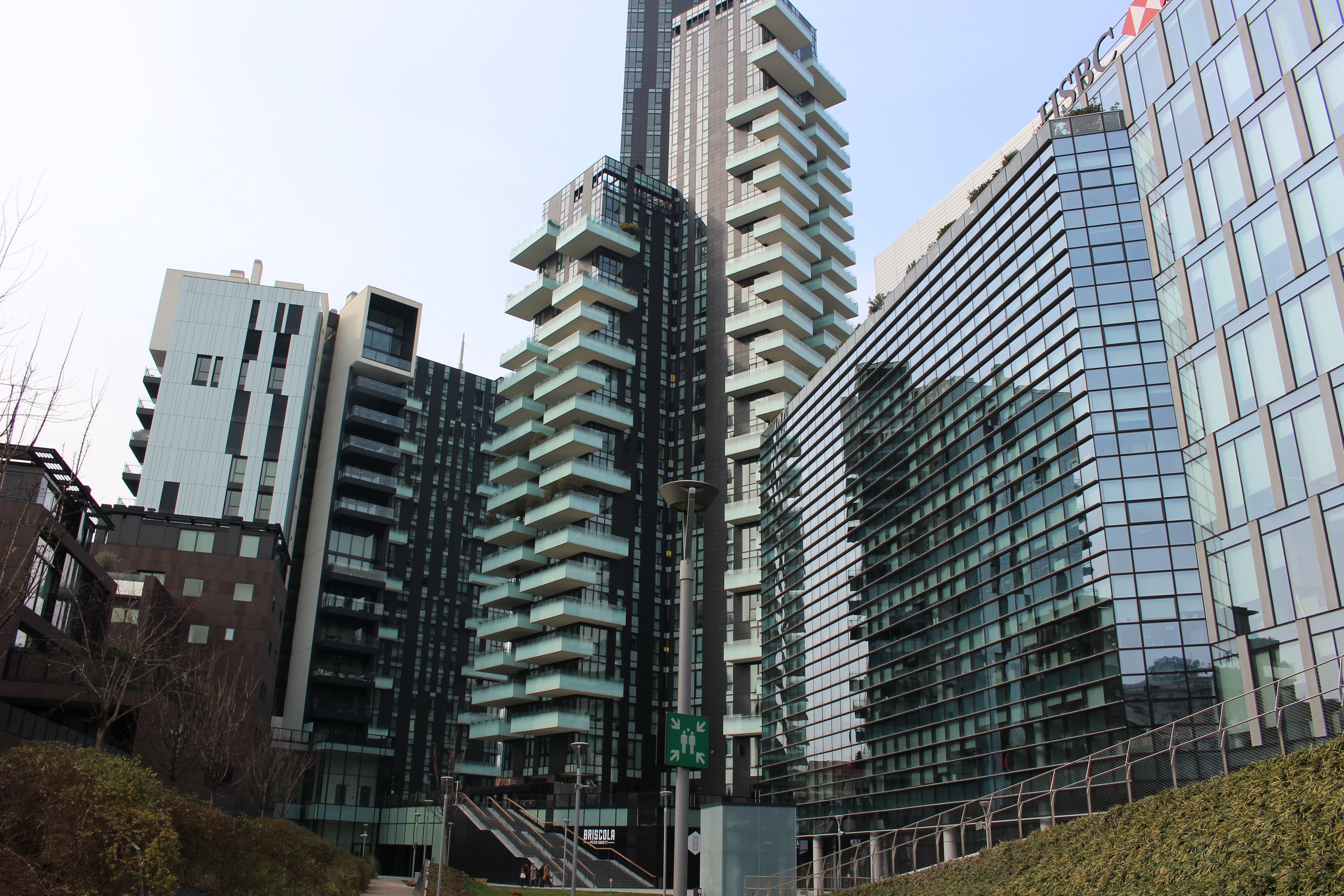 A view of the residential towers in the porta nuova district